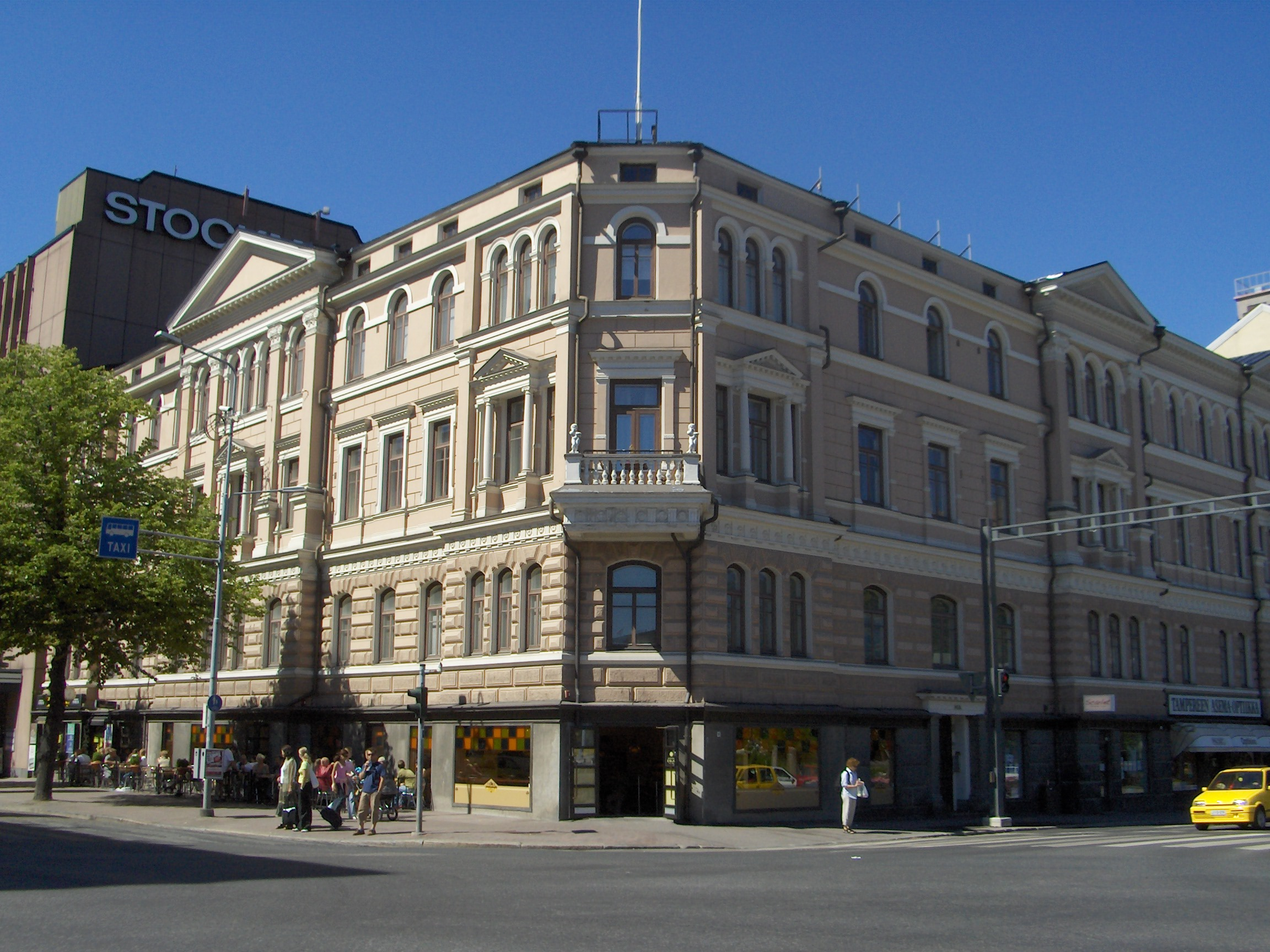 Rautatieläistentalo building at the corner of the streets Hämeenkatu and Rautatienkatu in Kyttälä, Tampere, Finland.